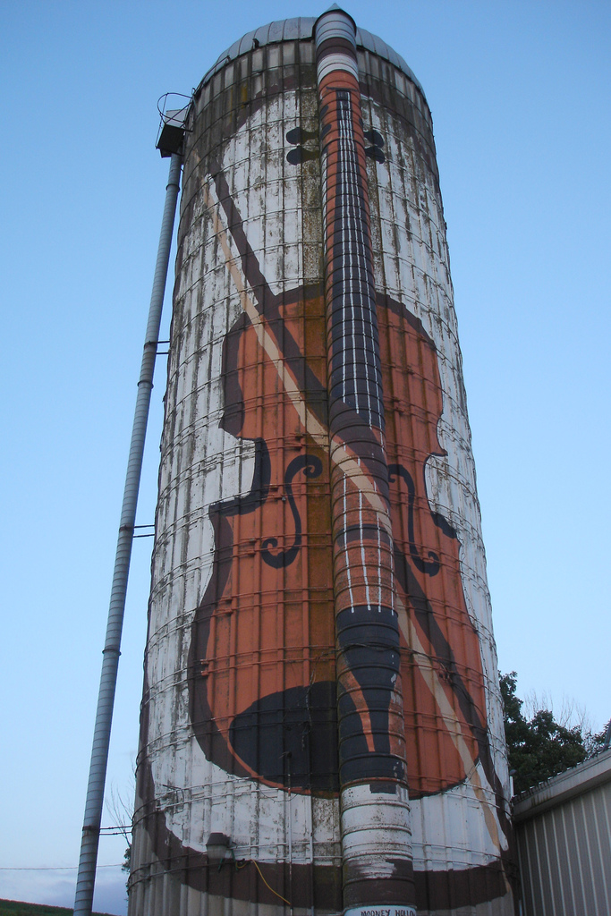 Happened across this as I followed the Great River Road, outside of Guttenburg, Iowa